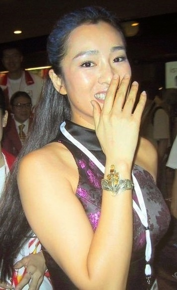 Moscow - Russia - 13 July 2001 - City of Beijing has been elected to host the 2008 Olympic Games - Gong Li is there with the chinese delegation. This is a cropped and edited image of a copyright free photo of actress Gong Li.